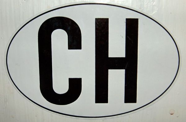 Swiss country tag; it was photographed and uploaded by a contributor to the German-language Wikipedia.